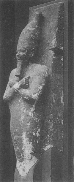 Statue of Senusret I as Osiris, from his pyramid complex at Lisht, now in the Egyptian Museum, Cairo (CG 401)